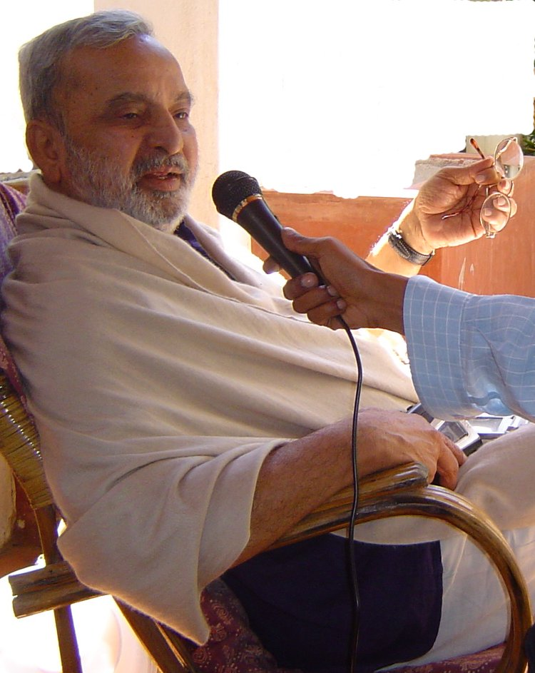 U. R. Ananthamurthy, kannada literateur. Taken on behalf of Sampada for an interview.